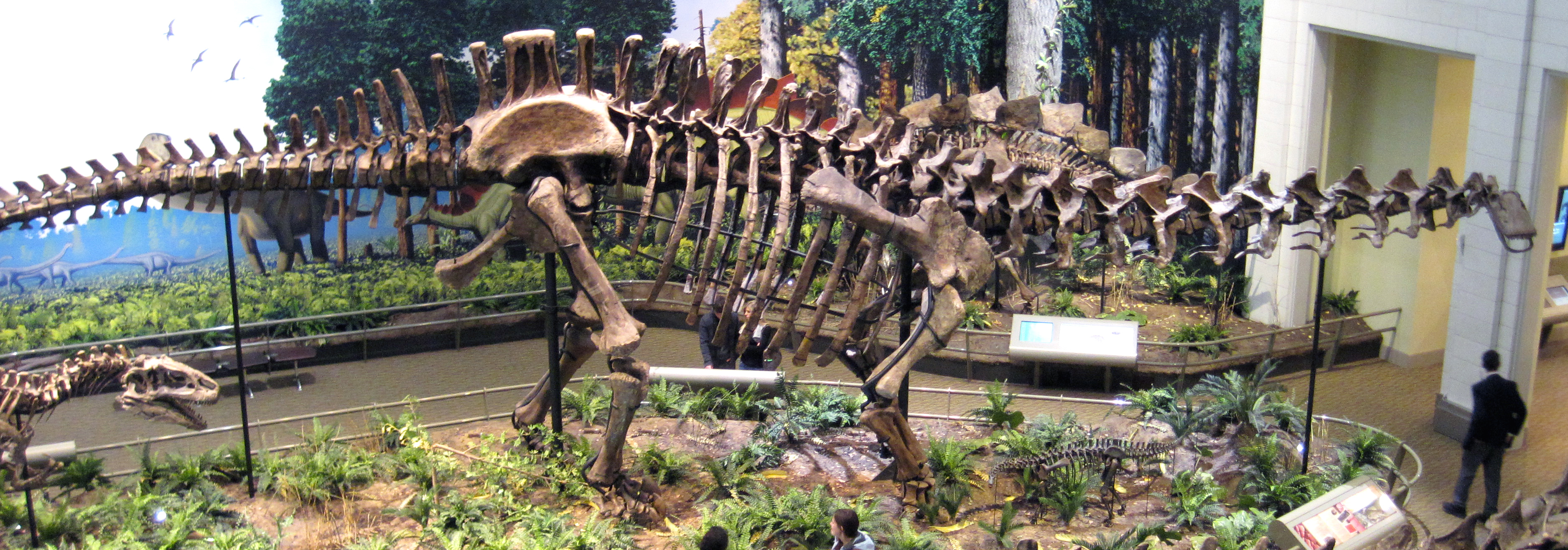 Apatosaurus louisae Holland, 1916 sauropod dinosaur from the Jurassic of Utah, USA (public display, CM 3018, Carnegie Museum of Natural History, Pittsburgh, Pennsylvania, USA). Classification: Animalia, Chordata, Vertebrata, Dinosauria, Sauropodomorpha, Diplodocidae Stratigraphy: Brushy Basin Member, Morrison Formation, Upper Jurassic, 151 Ma Locality: Carnegie Quarry, Dinosaur National Monument, northeastern Utah, USA Sauropod dinosaurs were the largest terrestrial animals ever. They all have the same basic body plan: large body with four walking legs, very long neck & tail, and a small head relative to body size. Sauropods were herbivores, and are often perceived as holding their heads & necks up high to reach vegetation normally out of reach to other organisms. Modern reconstructions of many sauropod species depict them with heads and necks held close to the horizontal, or at low angles above the horizontal.